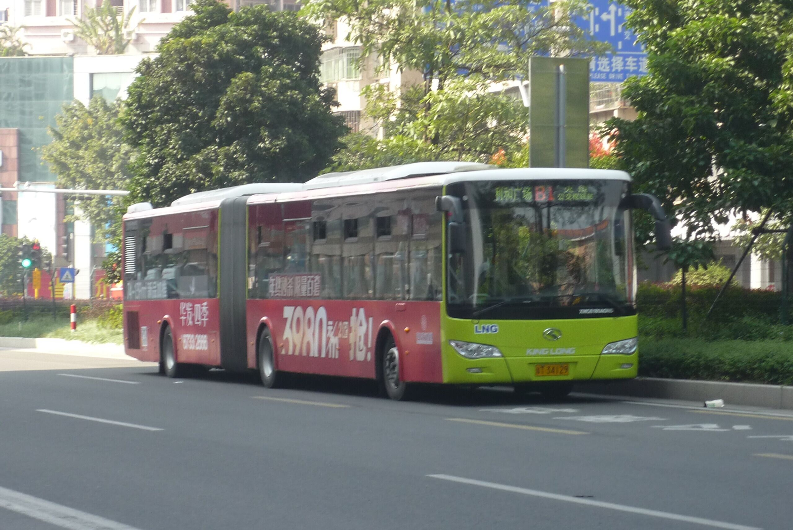 Zhongshan BRT XMQ6180AGN5